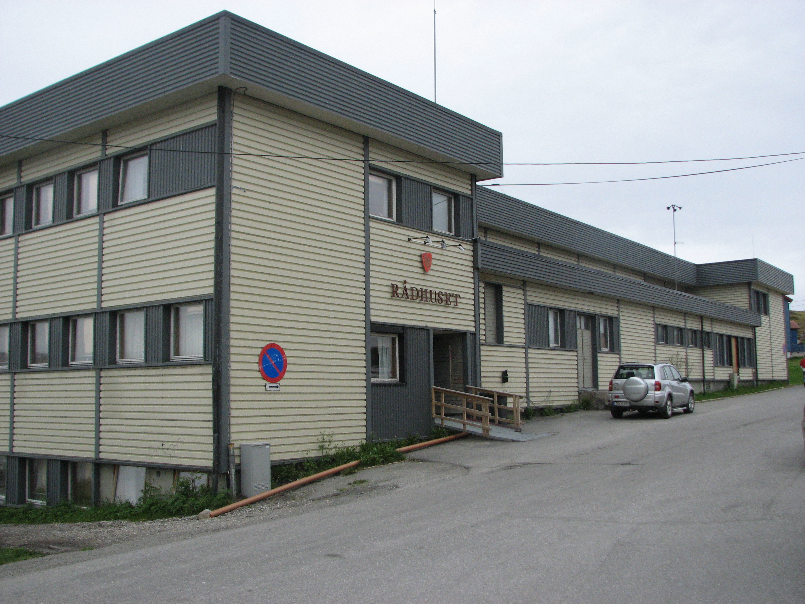 Mehamn, Finnmark, Norway Town hall of the Gamvik municipality in Mehamn